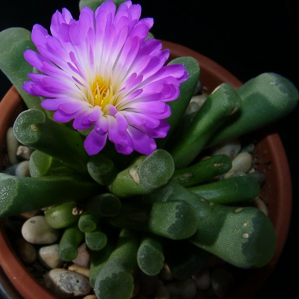 Frithia pulchra, my own plant